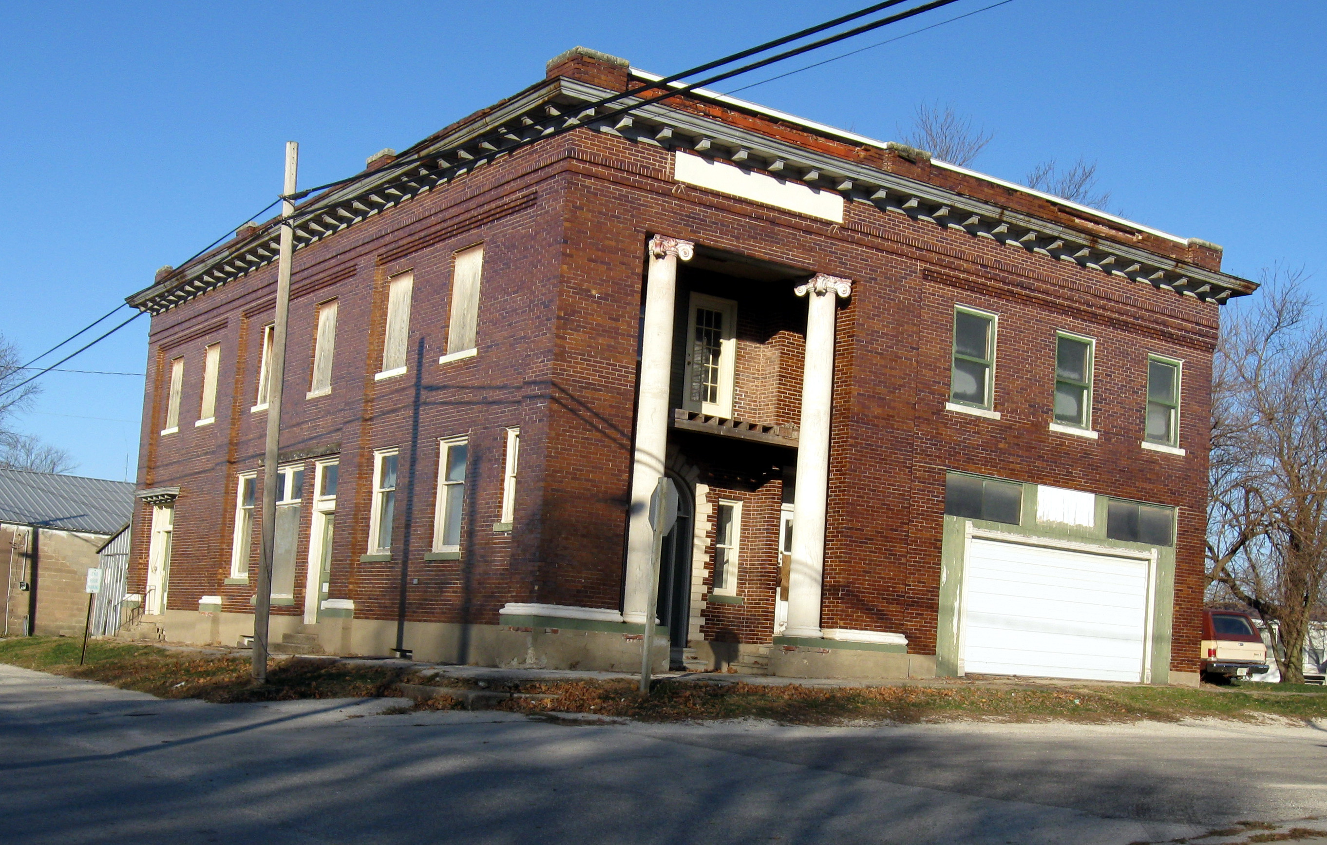 Lockridge, Iowa. This abandoned bank is the largest building in town.